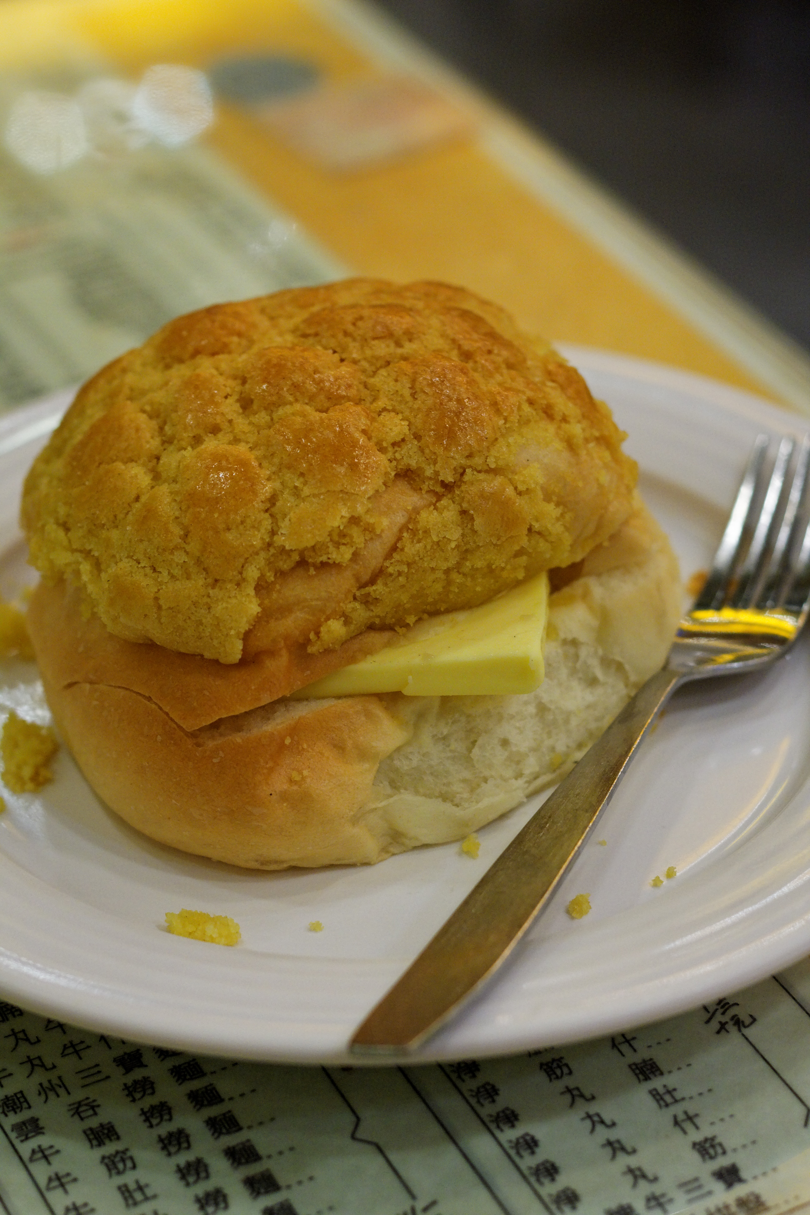 Traditional Hong Kong fastfood: Thick slice of butter in a 'Pineapple Bun'.